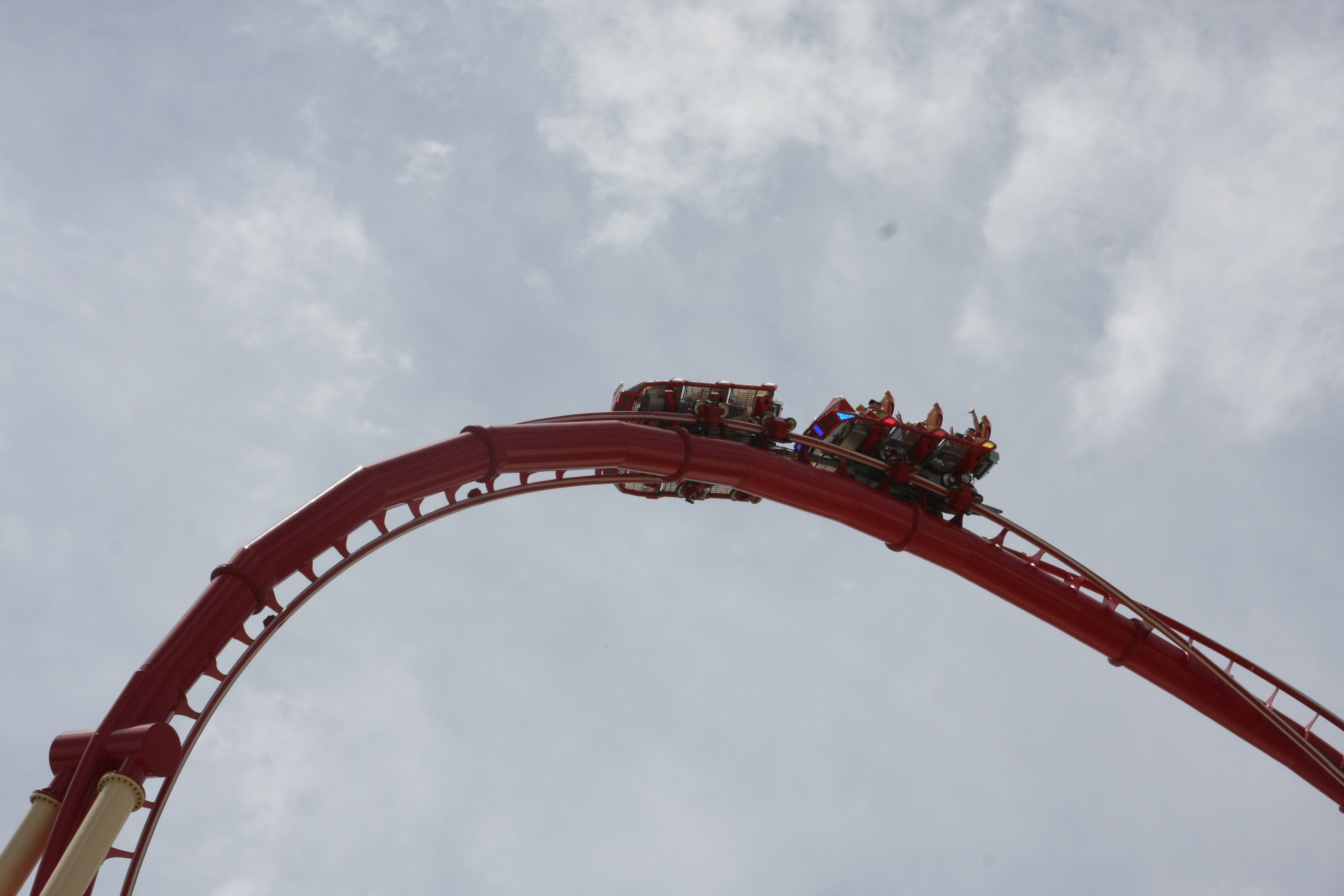 Train traversing the unique "non-inverting loop" element of Hollywood Rip Ride Rockit at Universal Studios Florida in Orlando